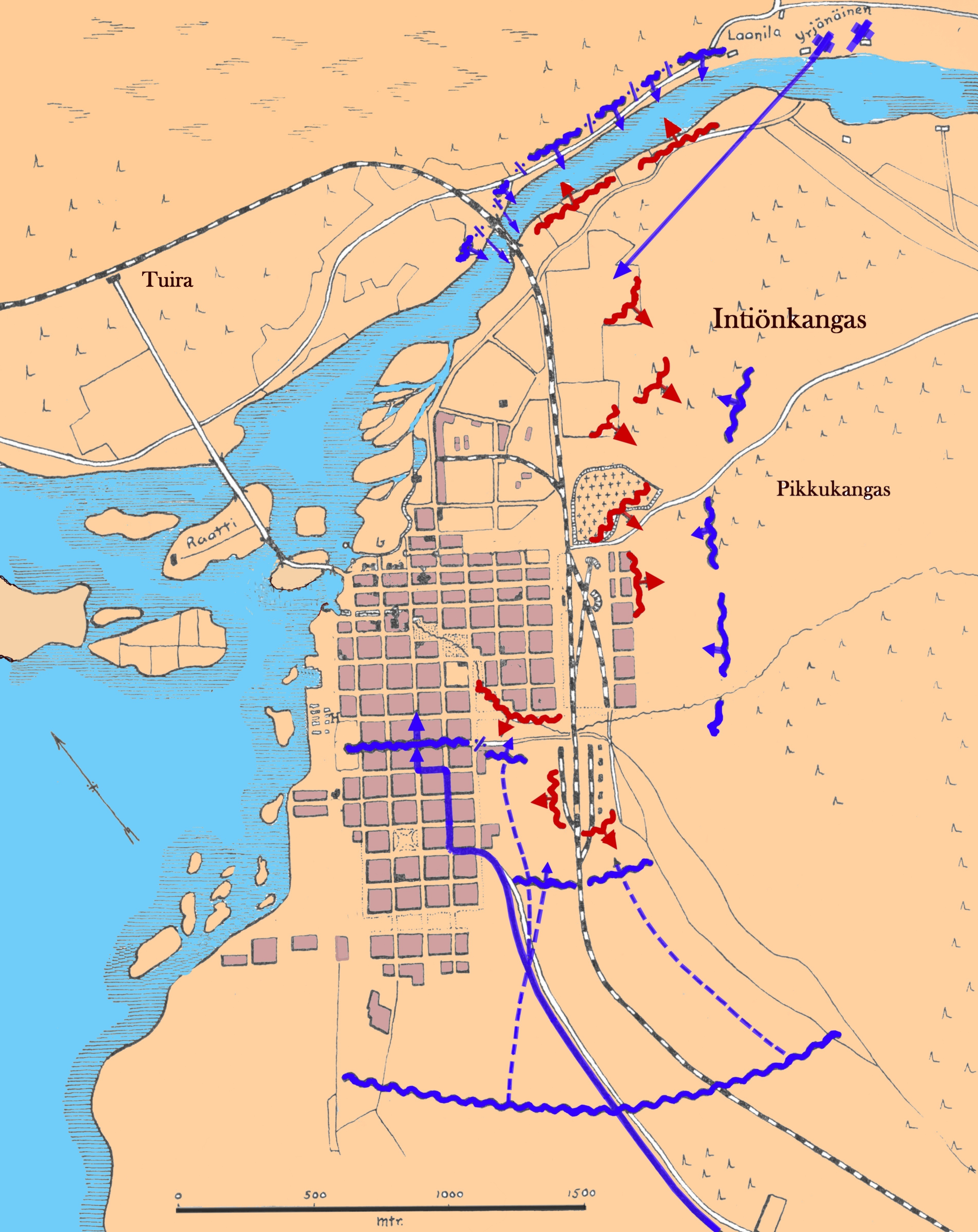 Map of the Battle of Oulu at the Civil war of Finland in the late January and early February 1918